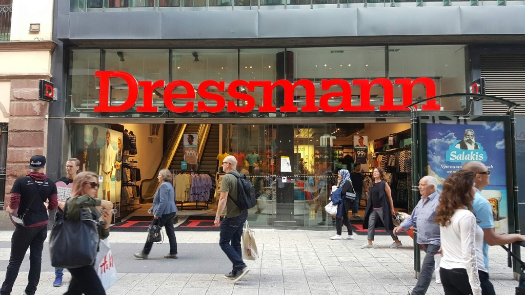 Flagship Stockholm.